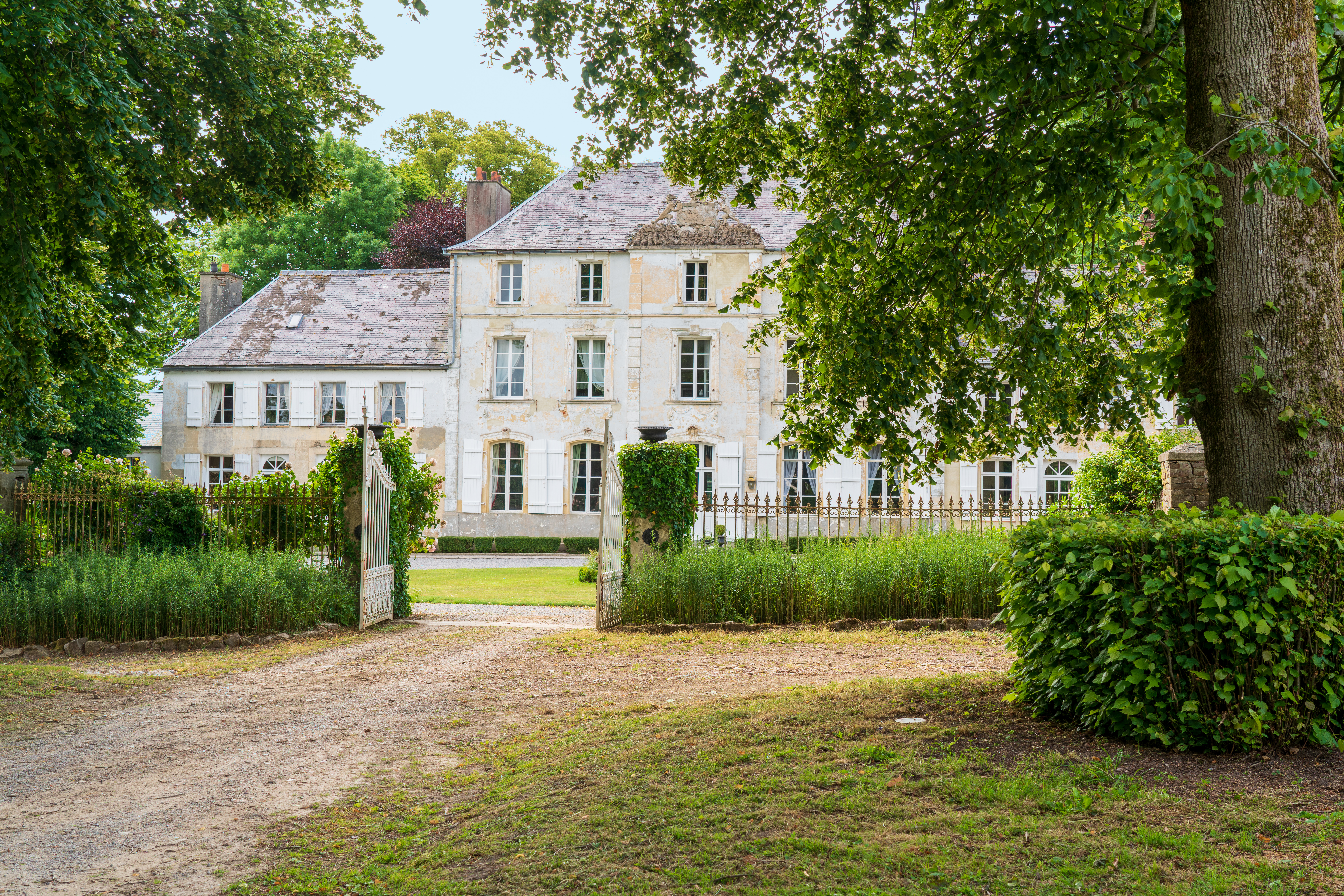 Château du Blaisel à Parenty. Entrée principale au bout d'une allée majestueuse